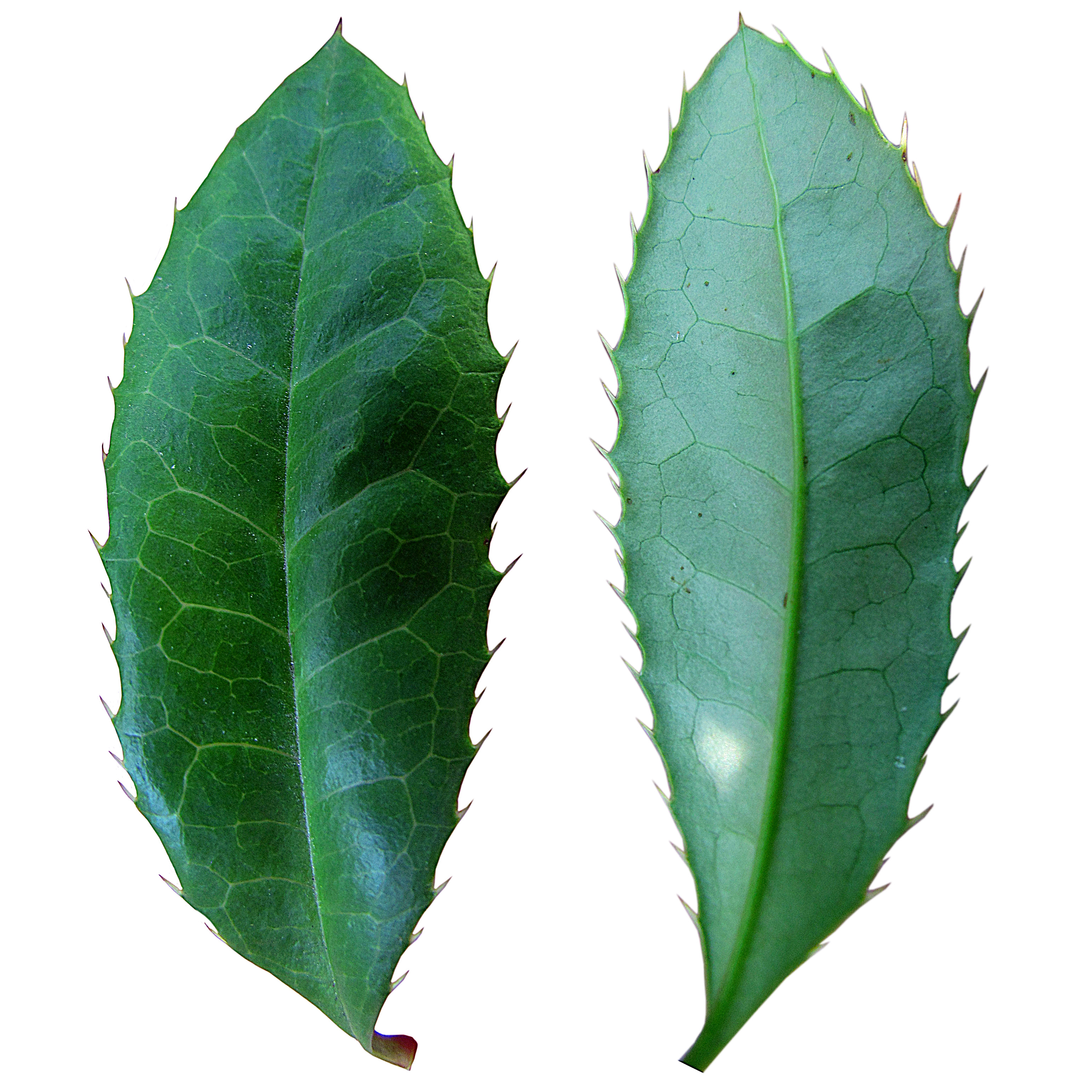 Leaves of Berberis julianae